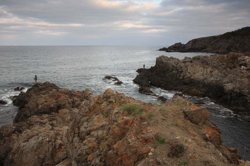 Fishermans at Agalina cape